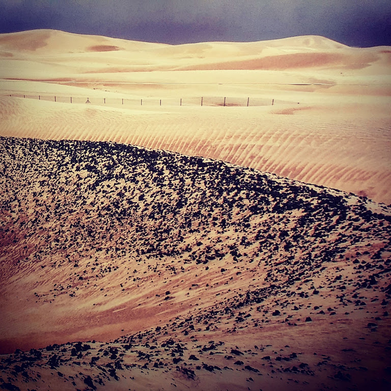 The site of Suruq Al Hadid, south of Dubai, on the margins of the Rub Al Khali.